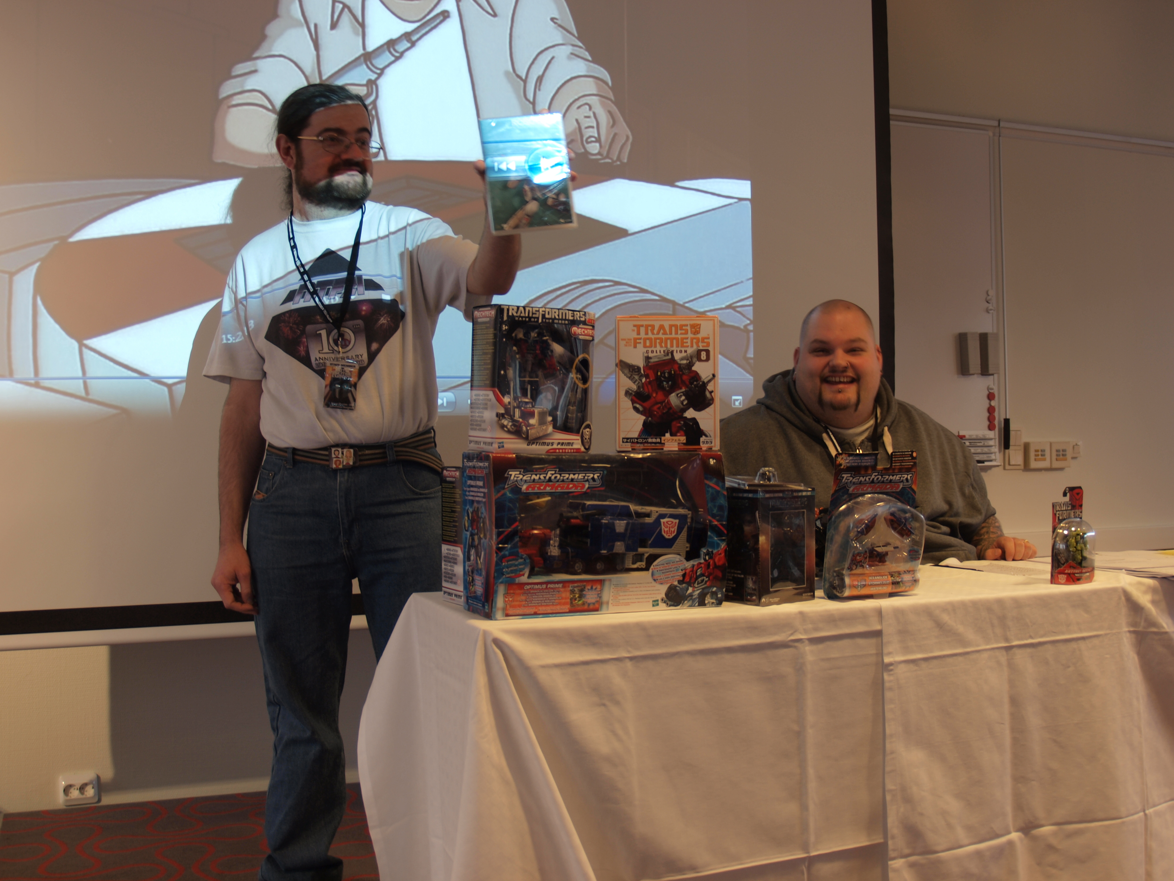 Simon Plumbe (from Auto Assembly) and Peter Casselö (from NTFA), organisers of Auto Assembly Europe, at the Auto Assembly Europe 2011 convention in Uppsala, Sweden. Uploaded with permission from the organisers.